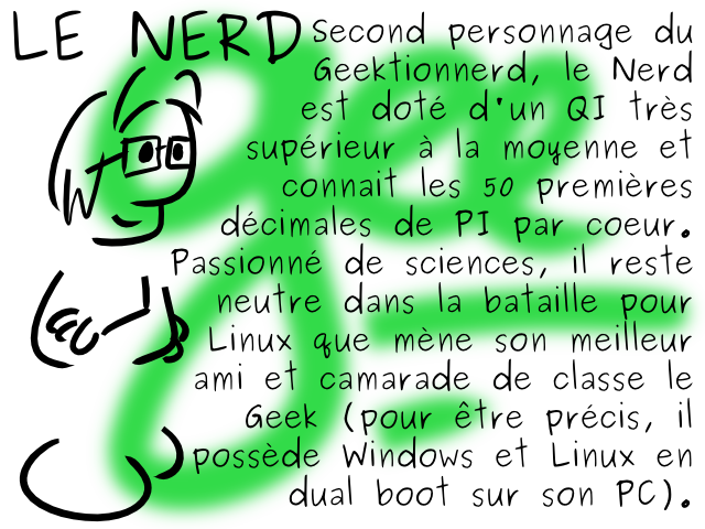 Character description of the Nerd (from Le Geektionnerd).